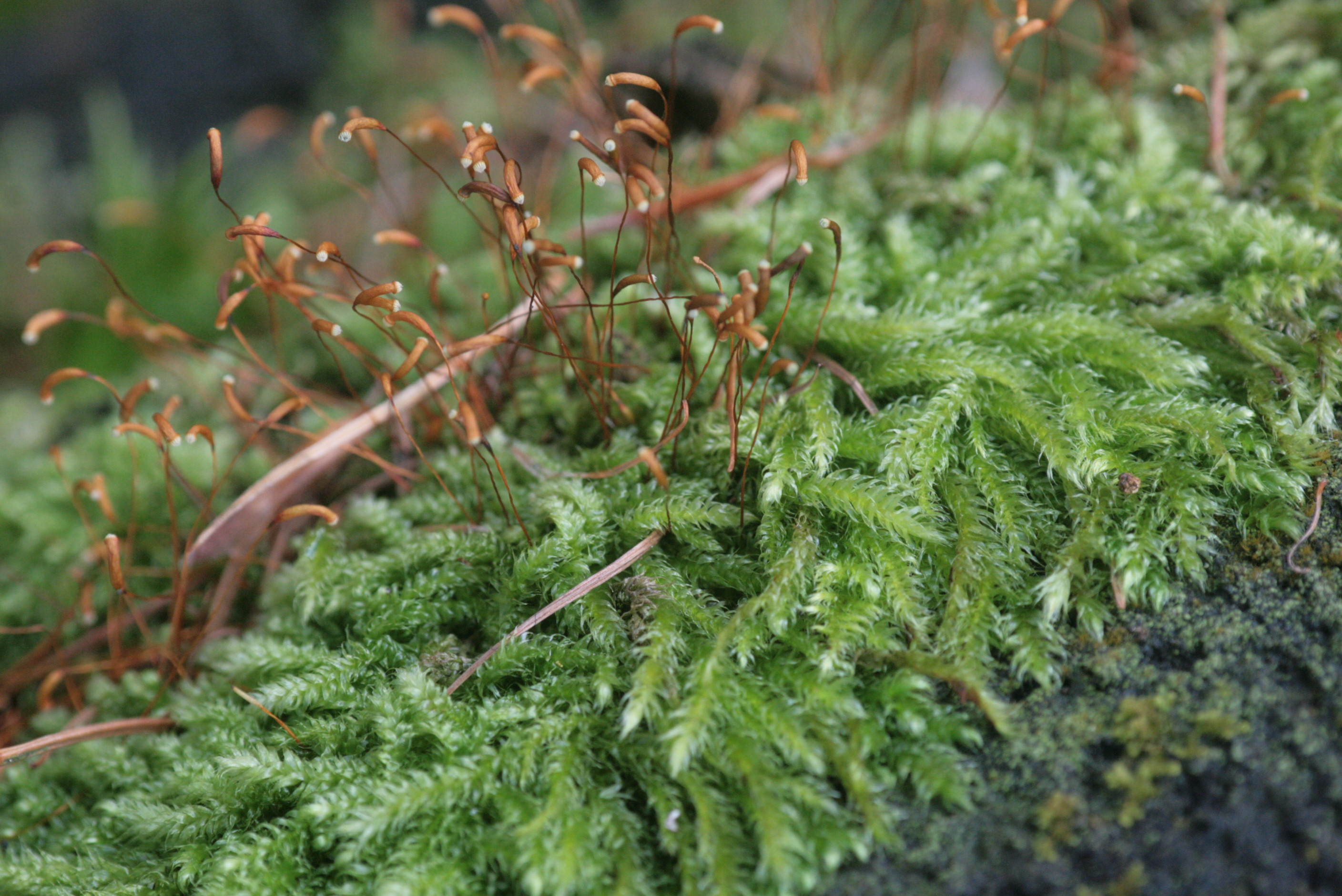 Herzogiella seligeri